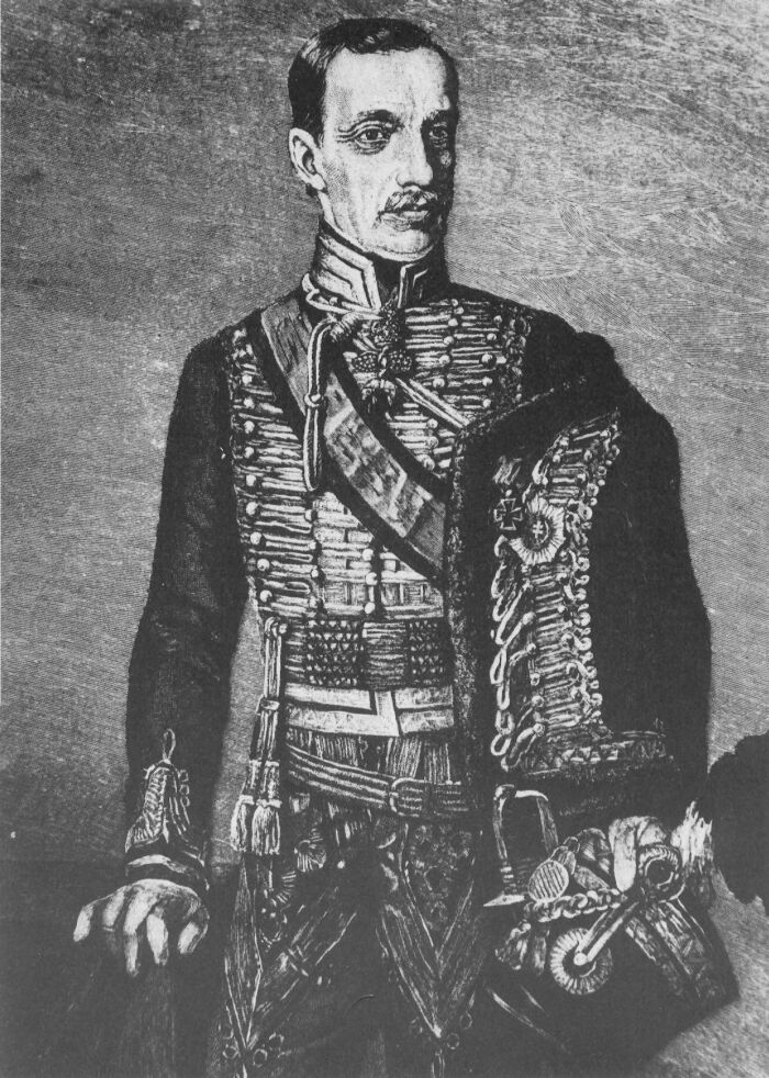 Archduke Joseph Anton Johann (Baptist) of Austria, 1776-1847, Palatin of Hungary